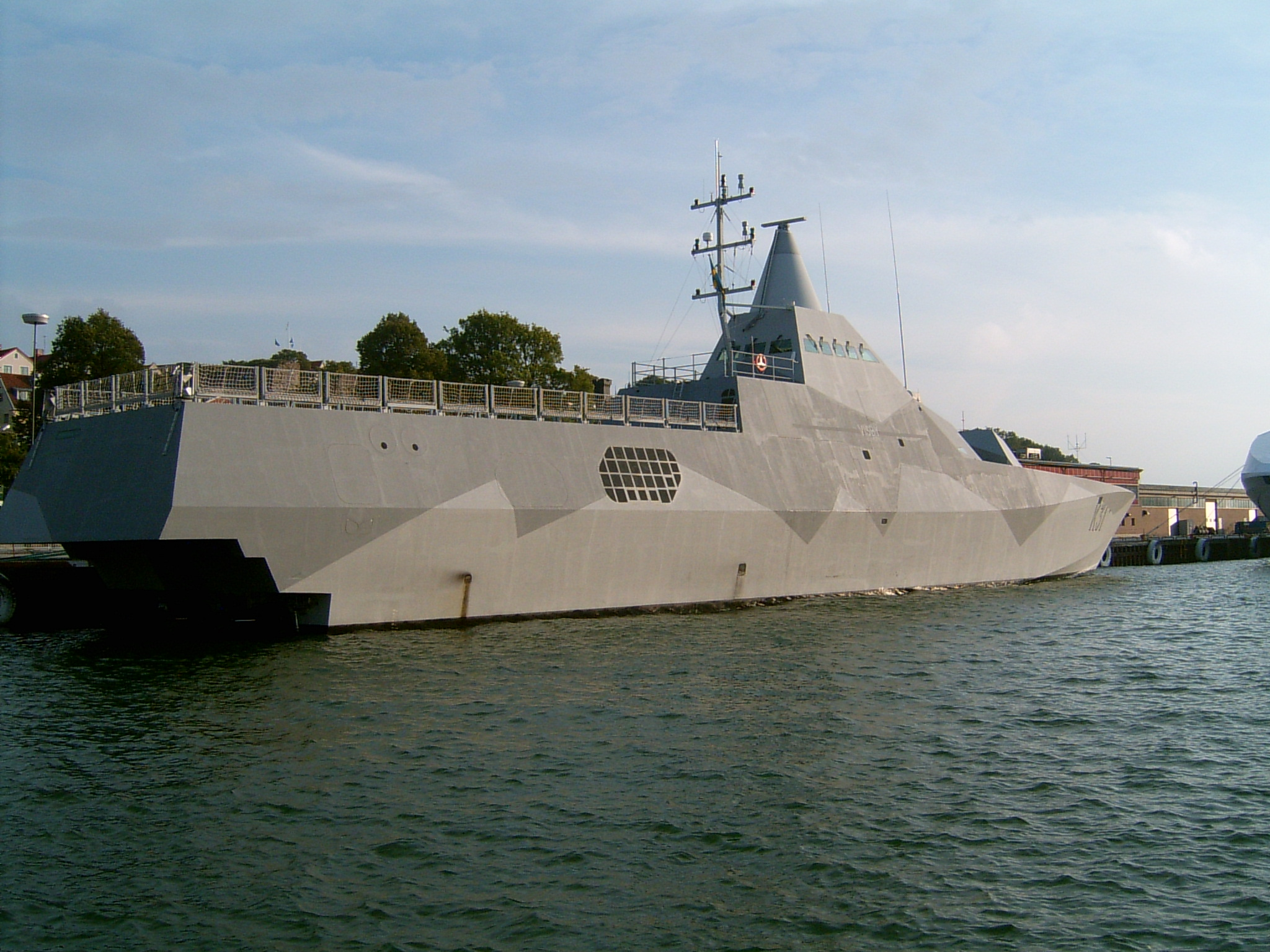 Swedish corvette HMS Visby in the harbor of Visby.